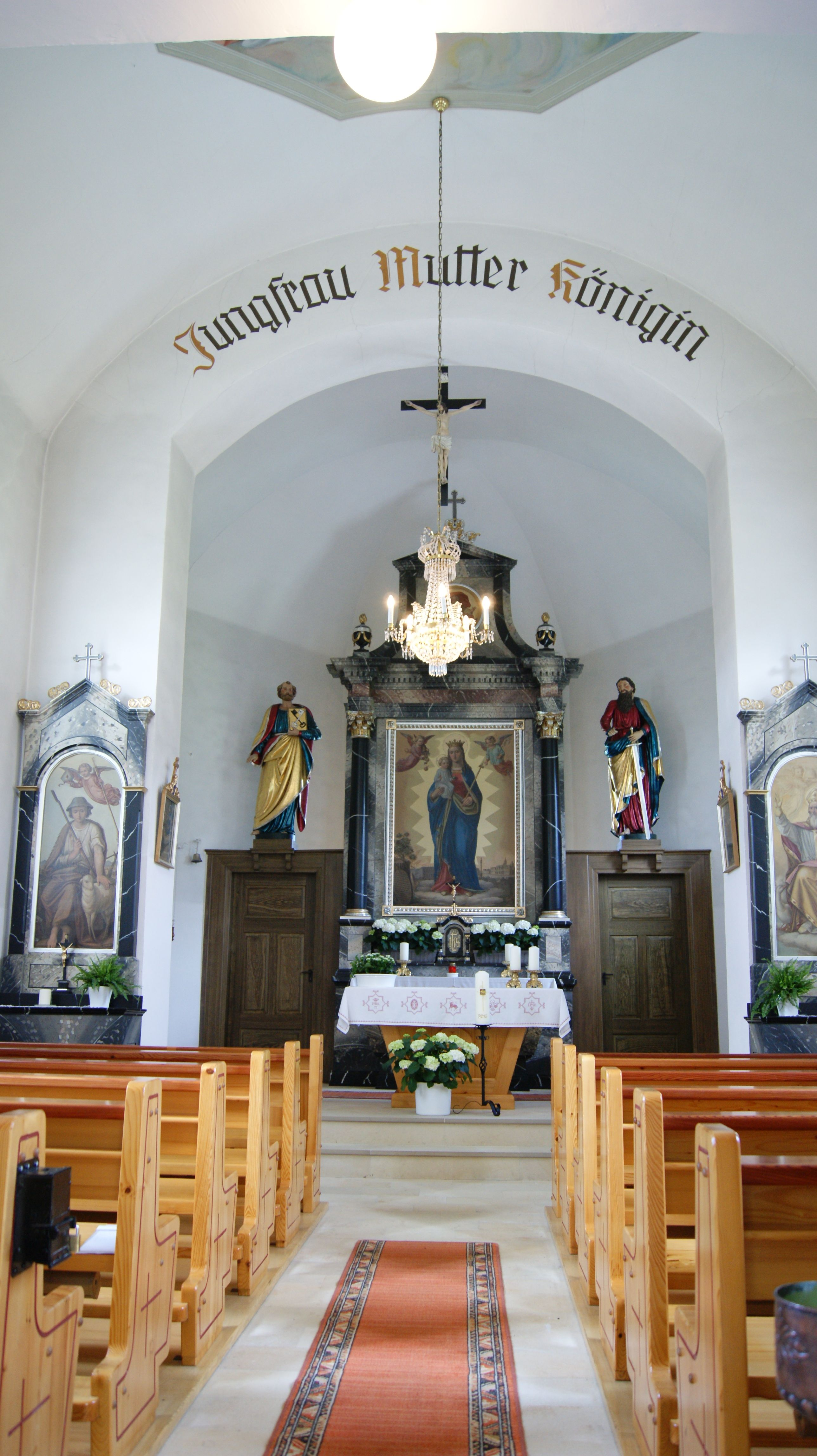 Altar in the Chapel Our Lady of the Snow in Winsau in Dornbirn, Vorarlberg, Austria.